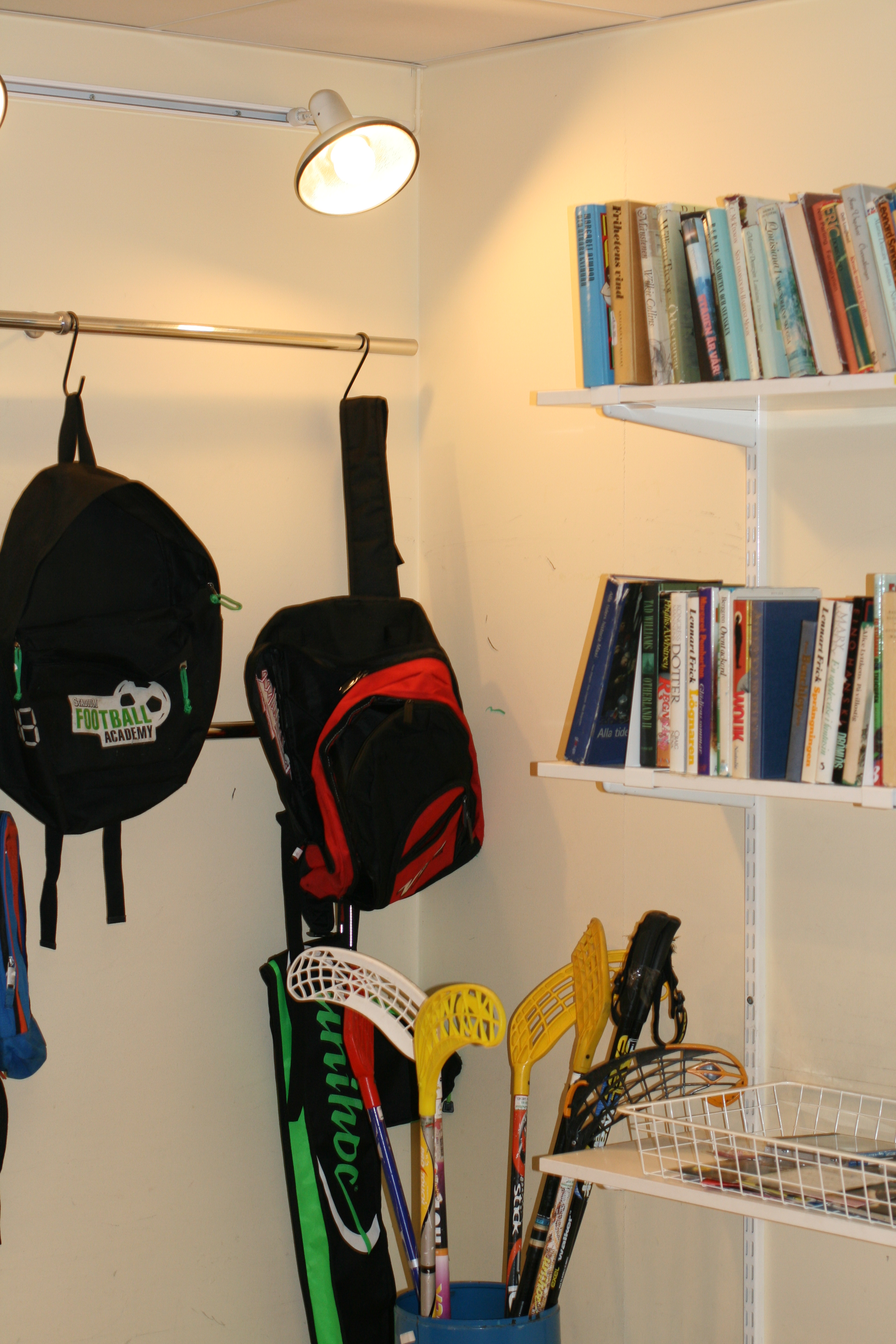 Lost, mislaid, and abandoned property at Stockholm City Hittegods run by the police of Stockholm.